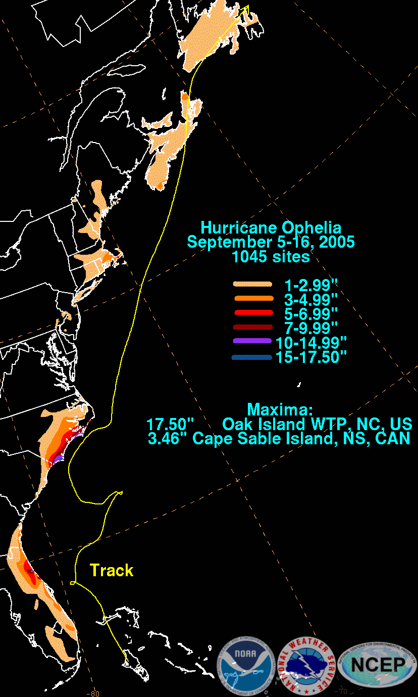 Storm total rainfall map of Hurricane Ophelia during September 2005.